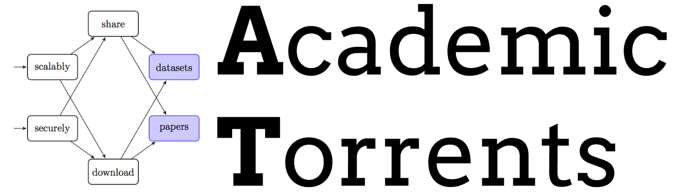 The logo for the Academic Torrents project